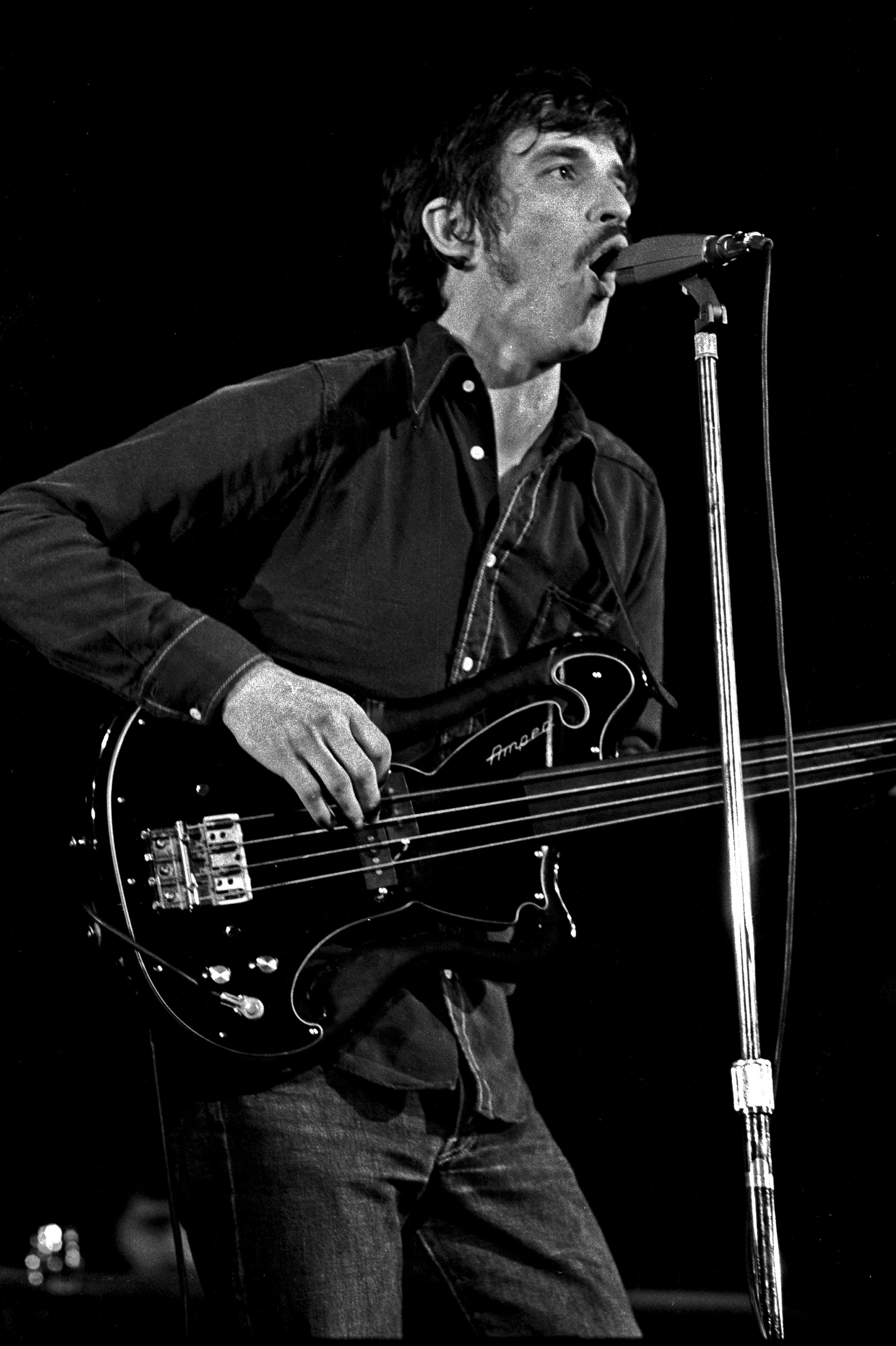 Rick Danko performing with The Band. Hamburg, May 1971.